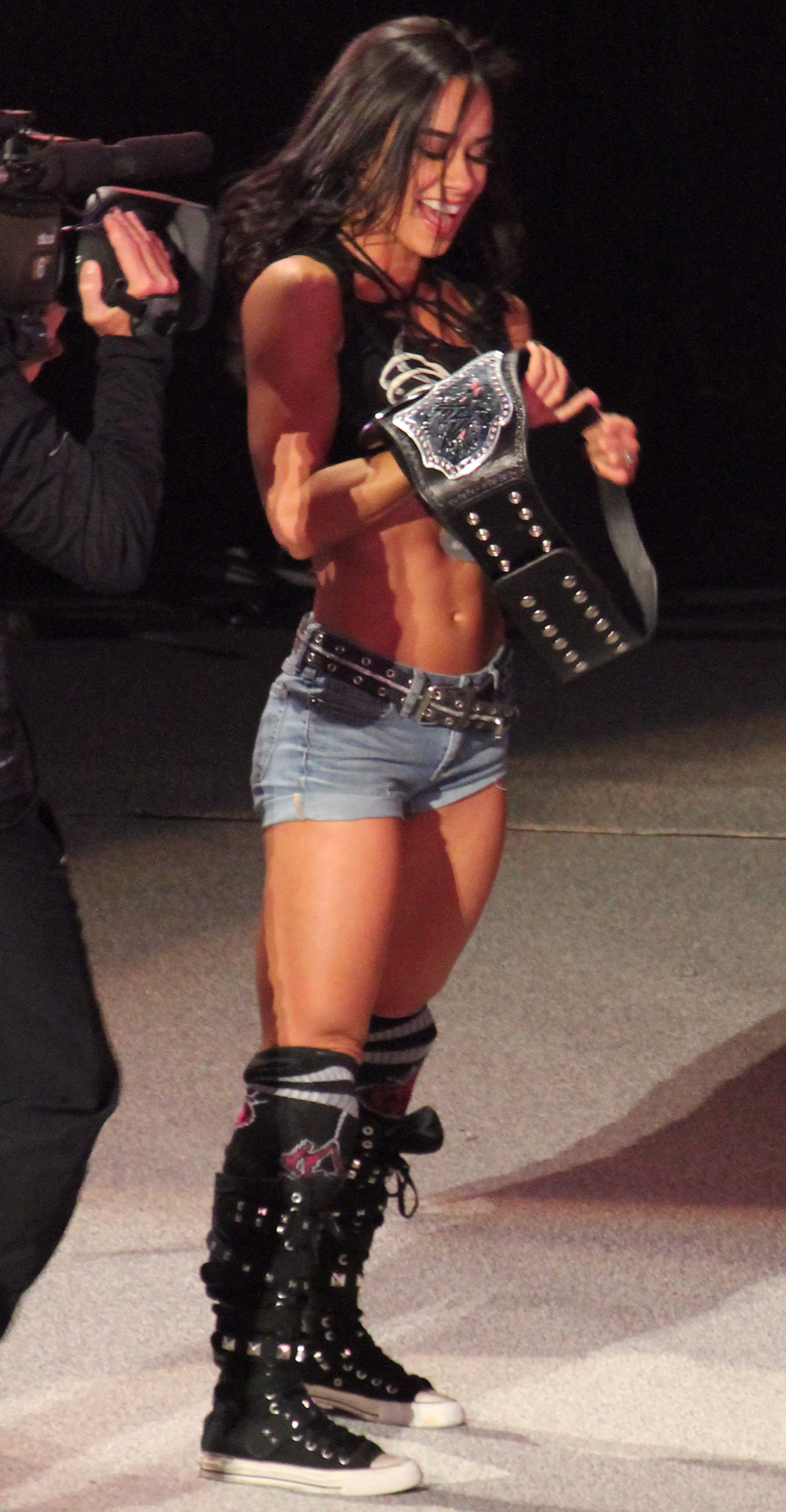 AJ Lee after winning the WWE Divas Champion from Paige during a triple threat match at Night of Champions (2014) on September 21. Cropped from original.